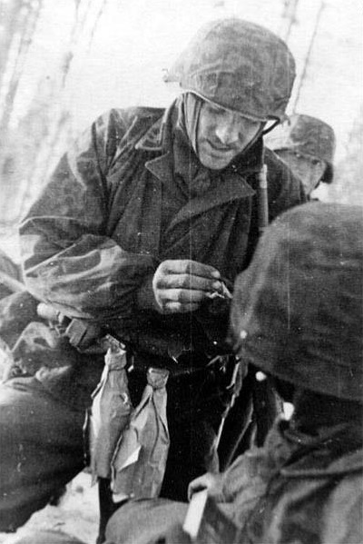 A German soldier lights a molotov cocktail.